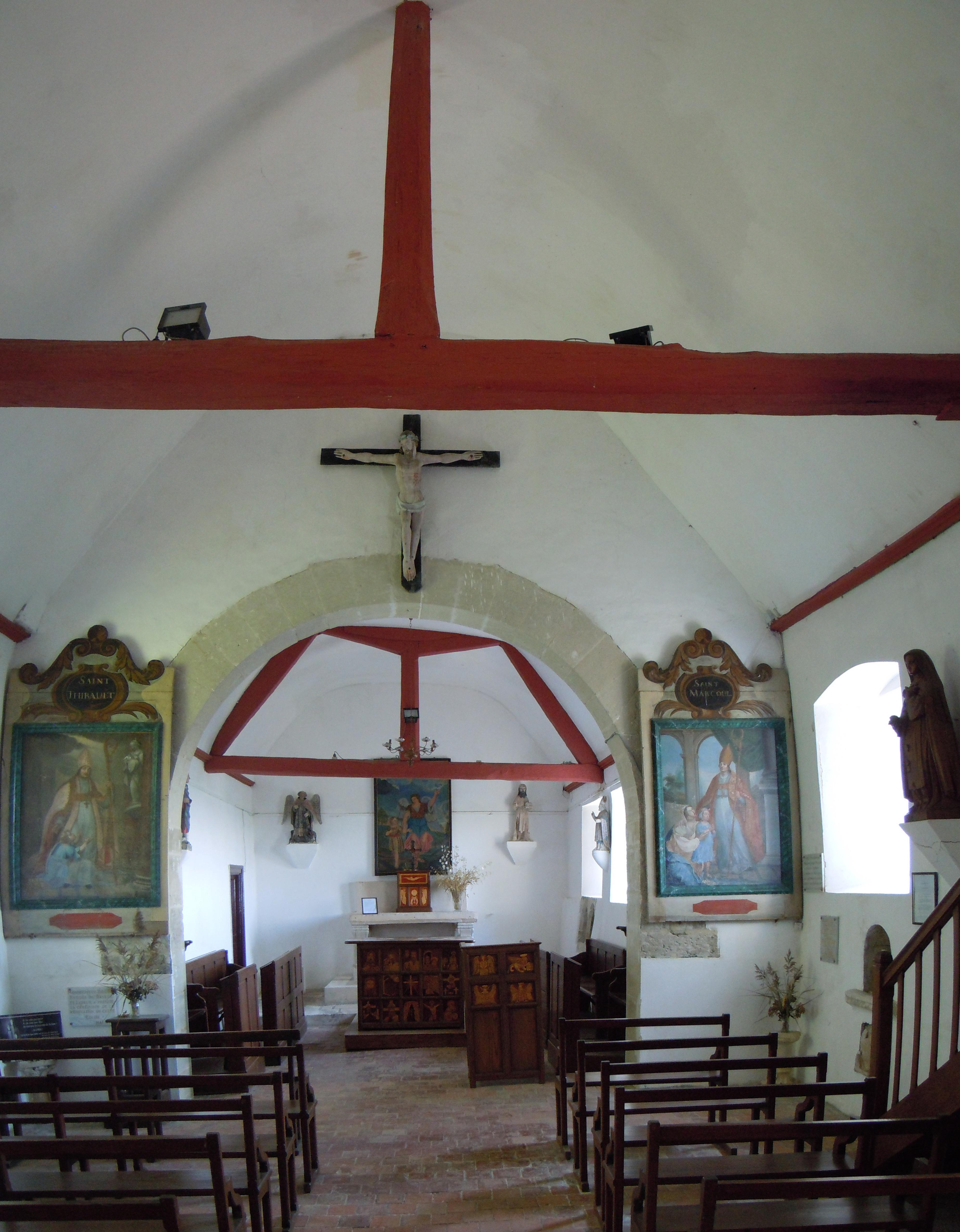 Chapelle de Clermont en Auge - Beuvron en Auge- Calvados france.